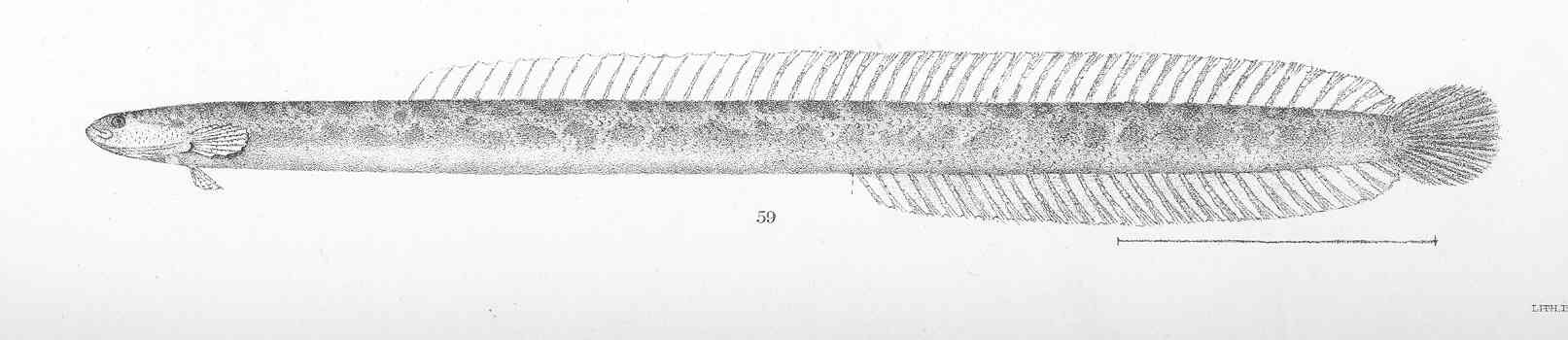 Microdesmus retropinnis Jorday & Gilbert. Panama Subject: Microdesmidae Tag: Fish